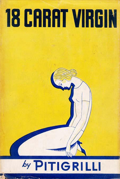 18 Carat Virgin (1924), Pitigrilli. Cover of the first English edition published by publishing house Greenberg, New York, 1933. “The story of Melitta, the ‘18 Carat Virgin’, Sketch, a well-meaning weakling who disrupts her life, and the ‘other woman’, an exotic actress who knew the scent of every natural and artificial blossom in the fields of love.”